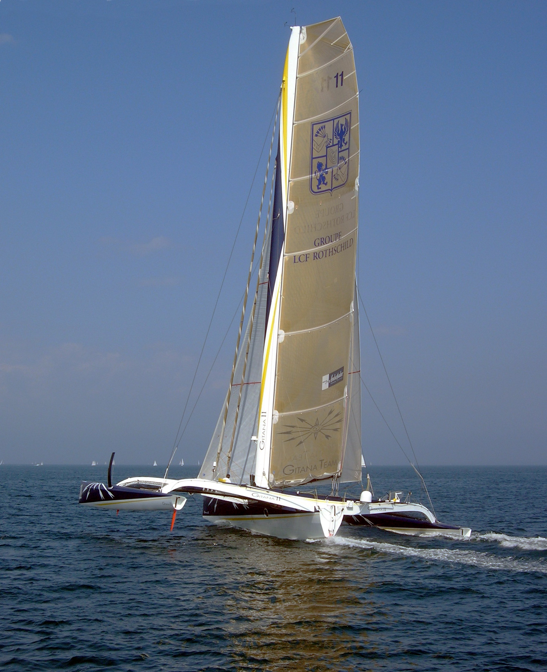 Description =Gitana 11 dans la baie de Quiberon Source =Photo taken by Remi Jouan Date =Aout 2006 Author =Remi Jouan